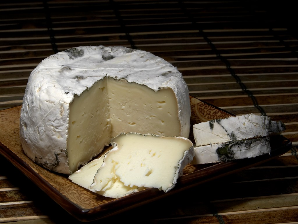 St Pat Cow's Milk Cheese.